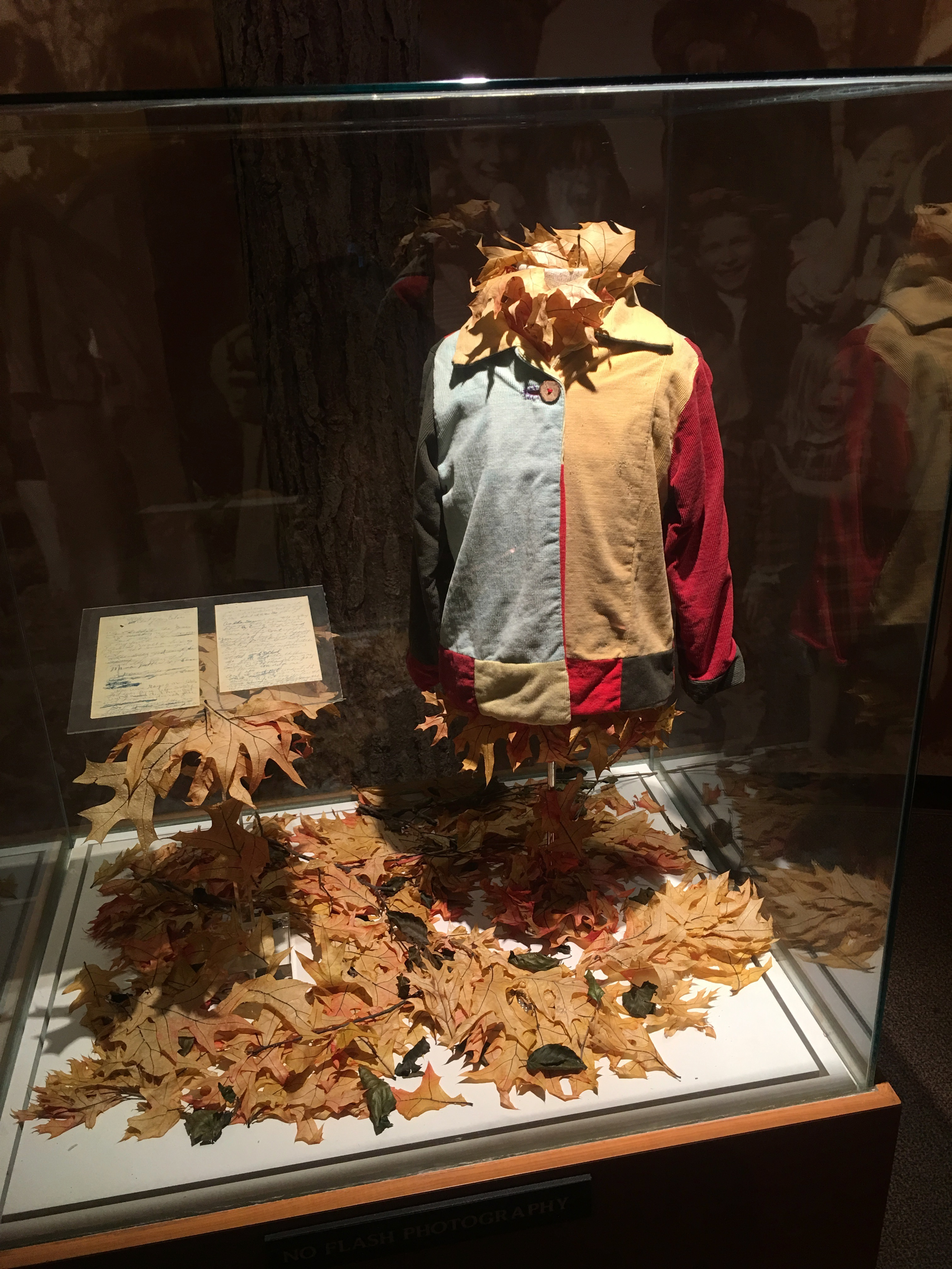 The "Coat of Many Colors" on display at Dolly Parton's Chasing Rainbows museum at Dollywood. The coat on display is a reproduction, made by Parton's mother, Avie Lee, of the original. Also displayed are Parton's original handwritten lyrics of the song.